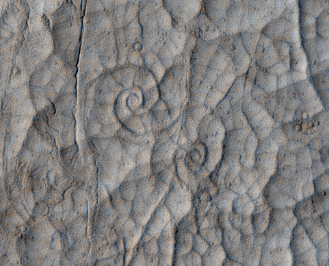 Spiral patterns on Cerberus Palus on Mars imaged by the HiRISE instrument aboard the Mars Reconnaissance Orbiter. The image resolution is 27.4 cm per pixel.